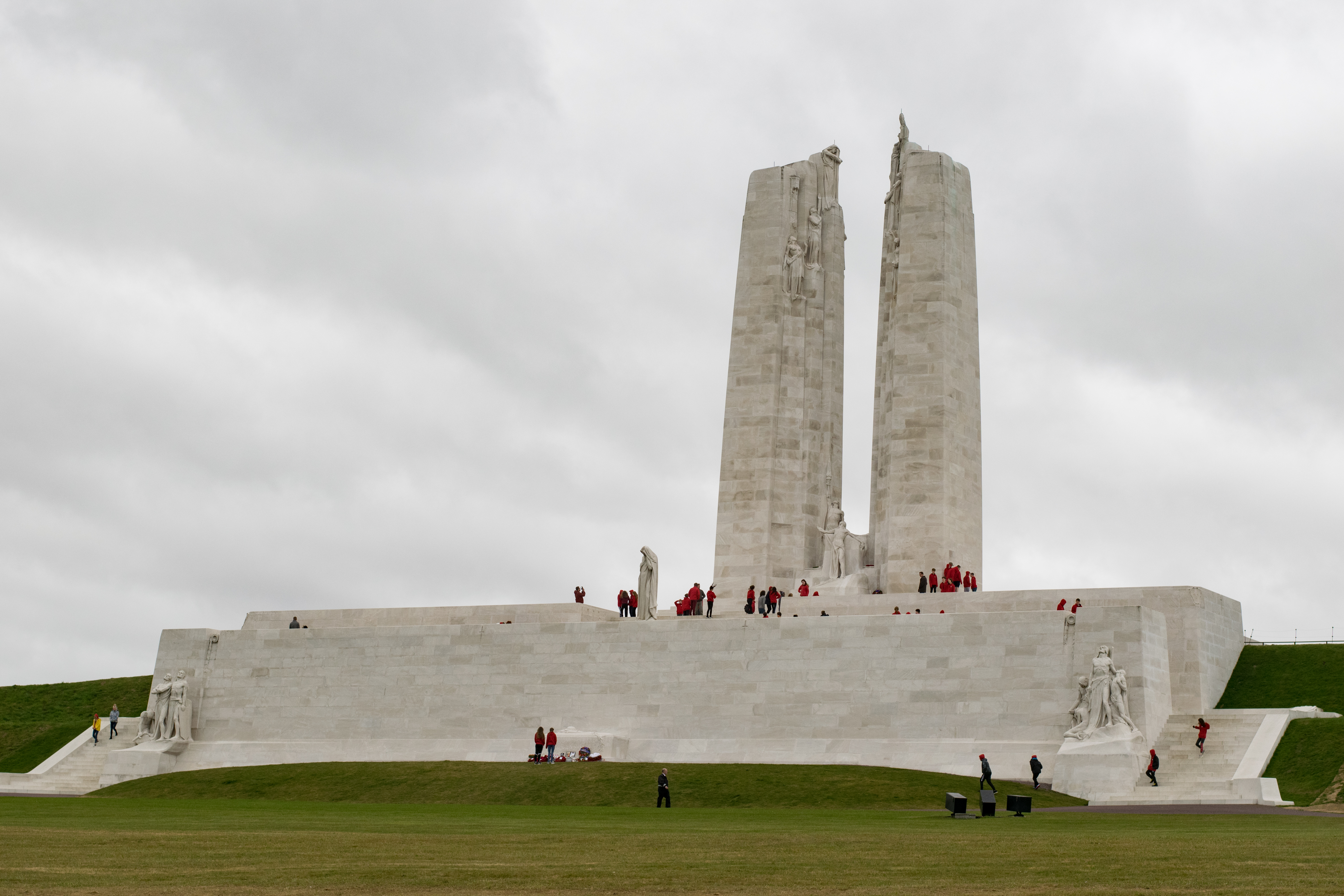 The Canadian National Vimy Memorial, France.